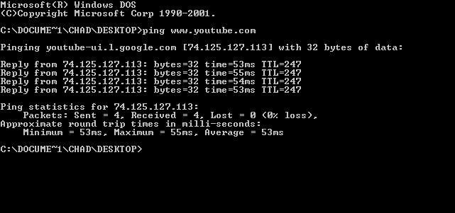 cmd ping